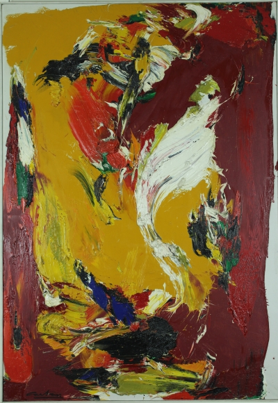 Jazz Light by Norman Carton, 72x50, c1959, Oil on canvas